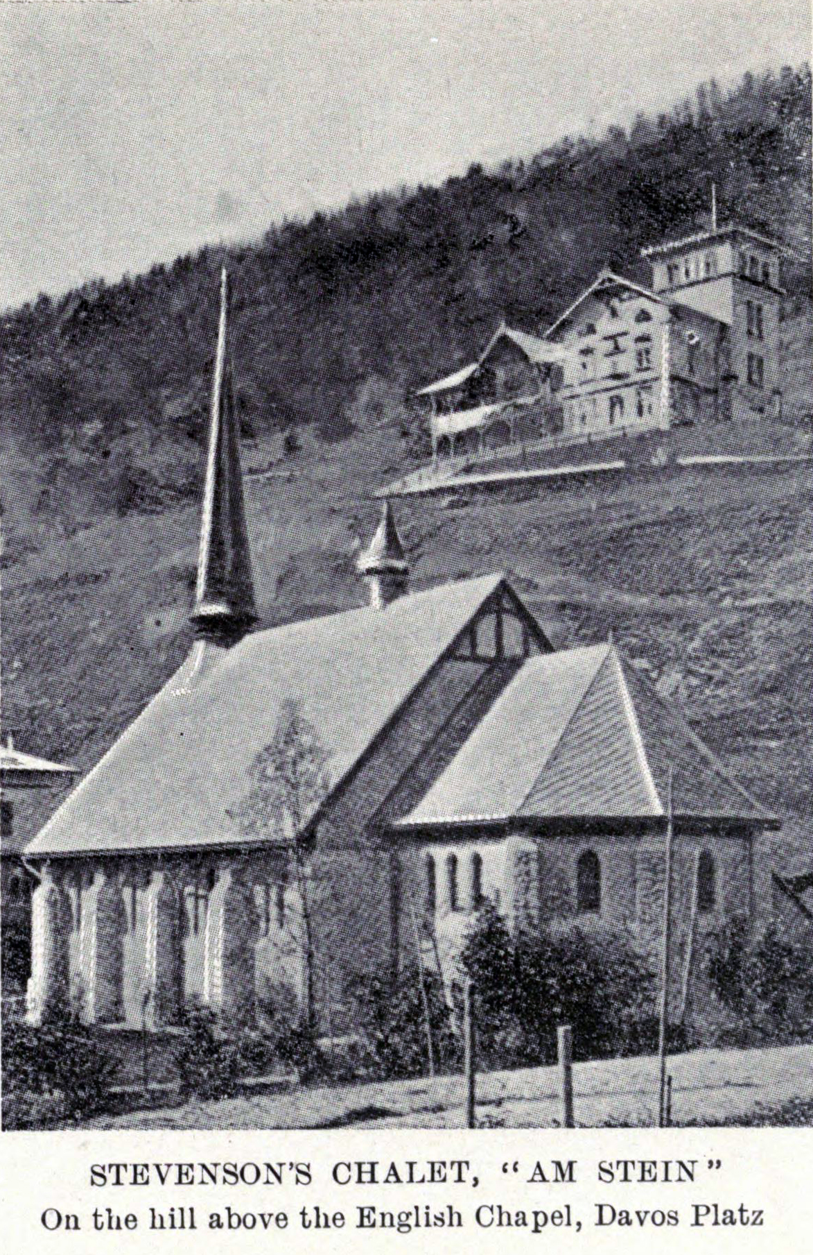 Stevenson's chalet in Davos. Photograph published in Stevensonia by J.A. Hammerton, 1910.